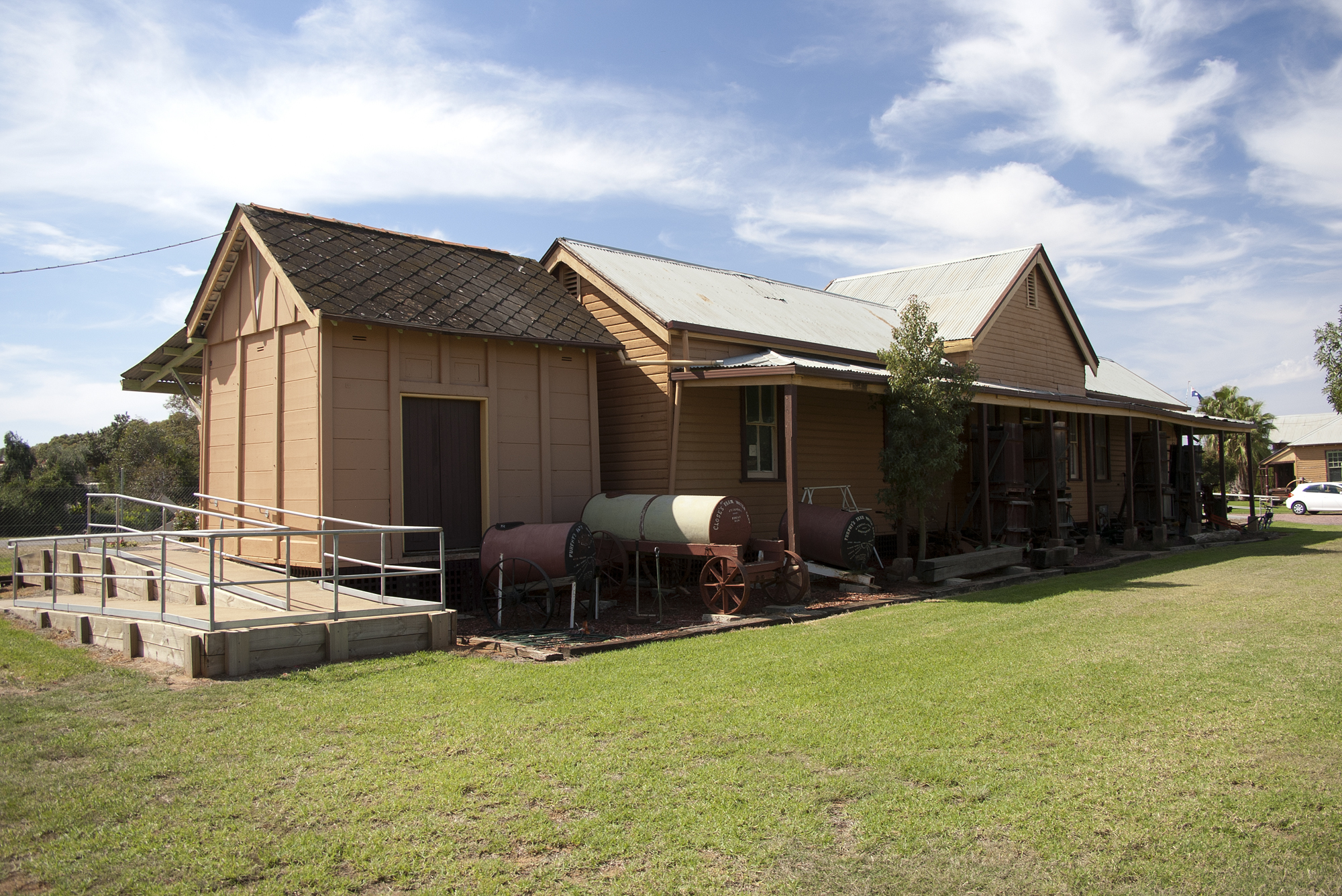 Rear view of the railway station building at the Whitton Museum.